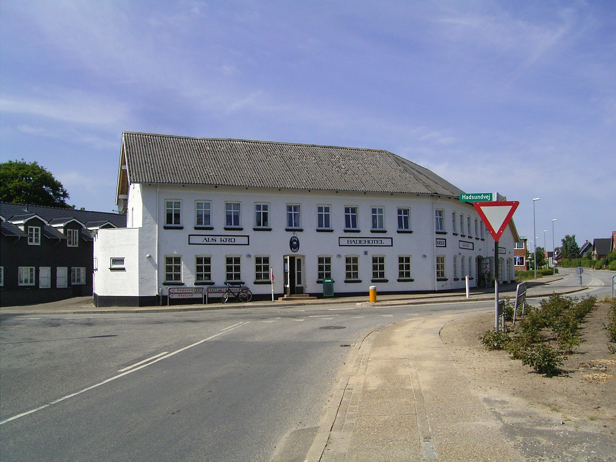 Als, a small village belonging to the Mariagerfjord Kommune